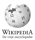 Wikipedia logo 2.0